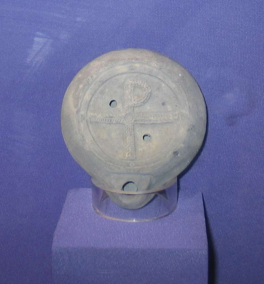 Ha-Mizgaga Museum, kibutz Nahsholim, Israel. 4th century(?) lamp with staurogram. [4th century (stated by uploader) is not impossible, but 5th or 6th century would seem at least as plausible. there is volumious research on the oil lamps from Caesarea Maritima[1] and it should be possible to identify this specimen in literature.]